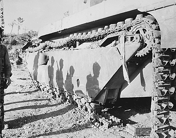 On the flank of a battle-wrecked alligator the Okinawa sun casts the shadows of 6th Division Marines as they move in to mop up the southern tip of the island.